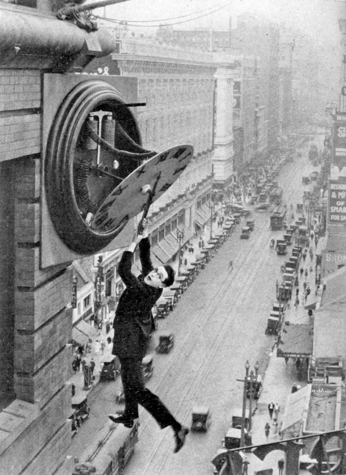 Image located opposite Page 145; Caption: SAFETY LAST - Suspended above Los Angeles